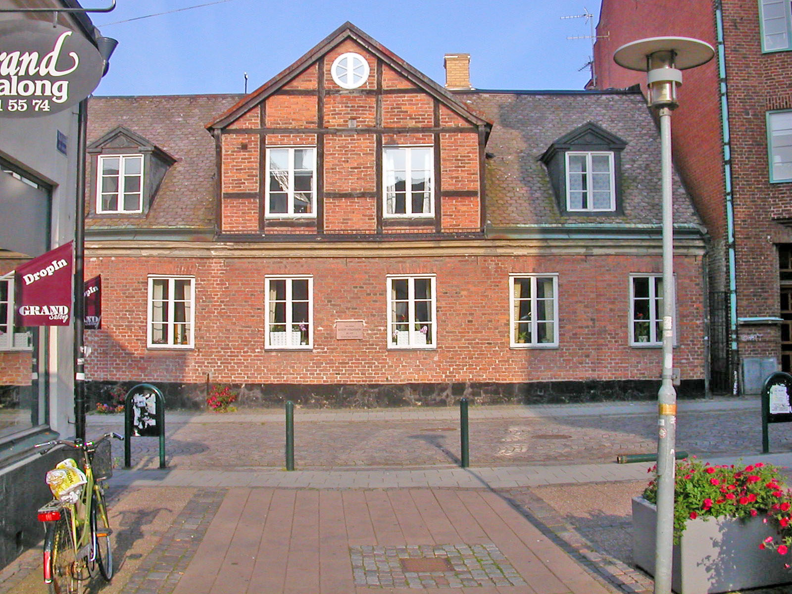 One of the homes of author August Strindberg during his various stays in Lund.